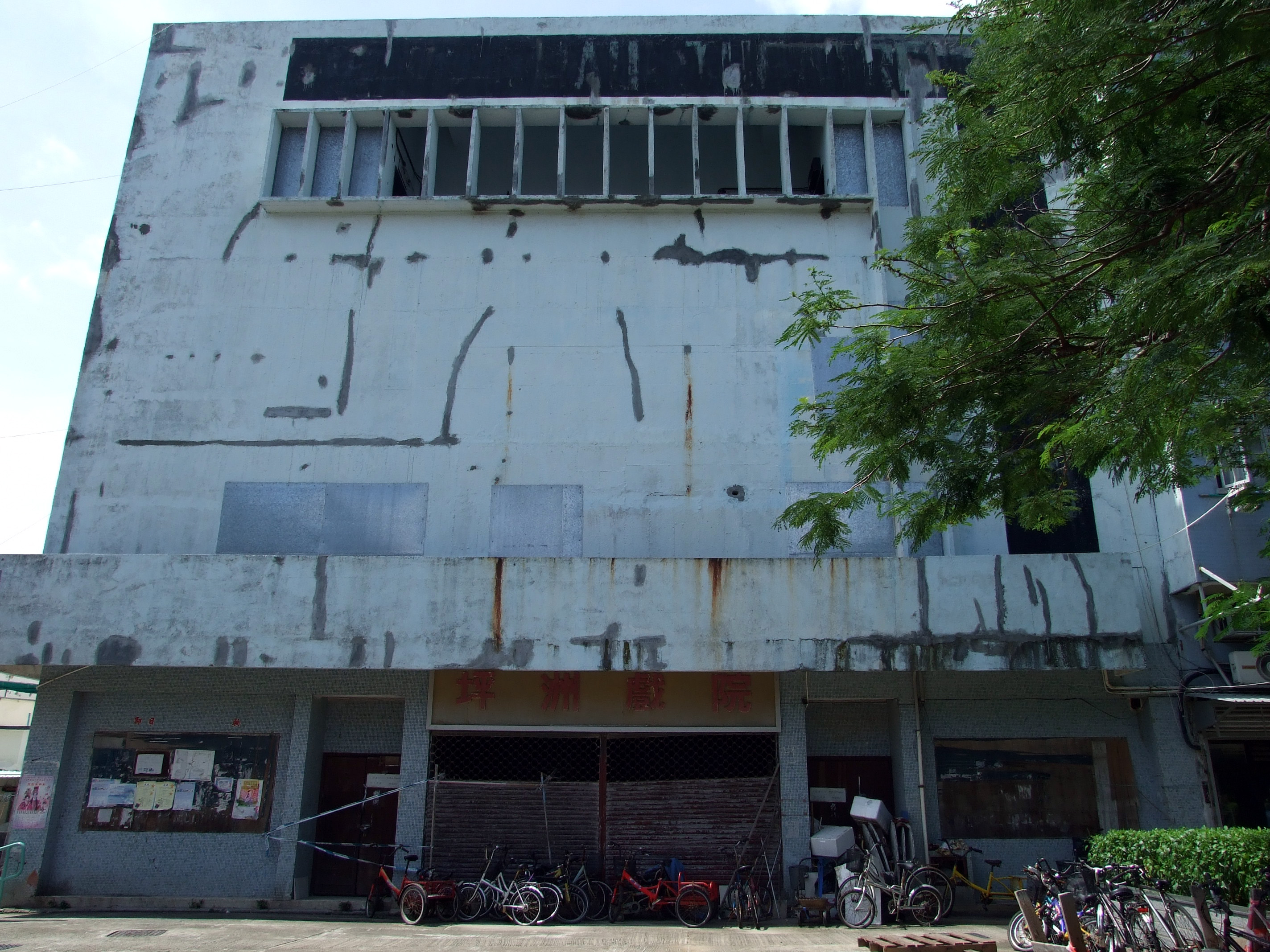 Former Peng Chau Theatre, a neighbourhood cinema situated in Peng Chau. More details at: [1]